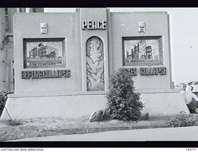 The Museum of Commerce, which was in the centre of the impact when the atom bomb was dropped 1945-08-06 stands now as a grim reminder of what can happen. Outside the museum is a monument erected by the school children of Hiroshima to dedicate their lives to peace and no more atom bombs.